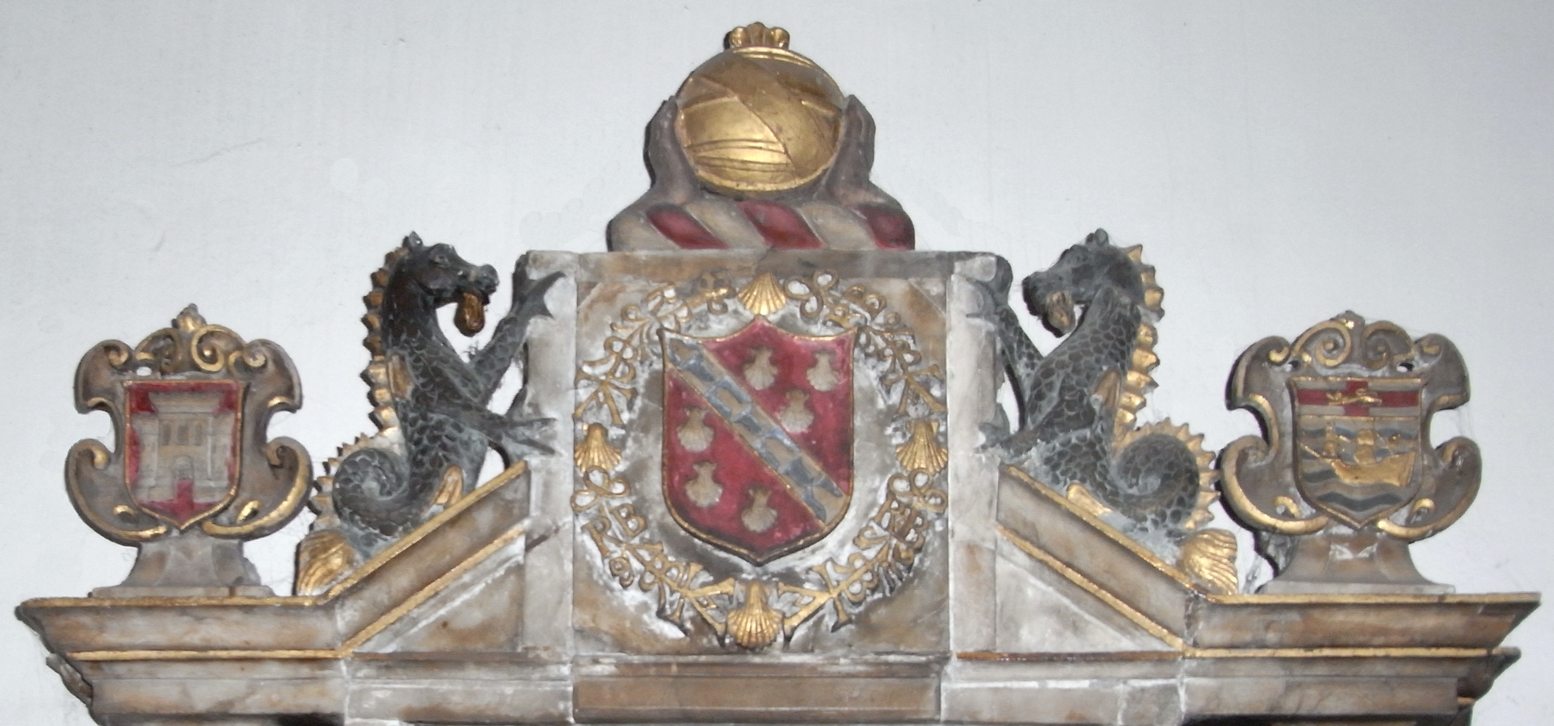 Detail from monument to Richard Beaple (1564-1643), thrice Mayor of Barnstaple and Member of the Spanish Company, in St Peter's Church, Barnstaple, showing centre, arms of Beaple Gules, a bend vairy between six escallops argent, with crest (On a wreath of the colours, two arms embowed issuing out of clouds all proper, holding in the hands a globe or) and supporters (Two sea horses argent, finned or) of the Spanish Company. At left are shown the arms of the Borough of Barnstaple Gules a Castle of three towers conjoined Argent the centre tower larger than the others, at right the arms of the Spanish Company Azure in base a sea, with a dolphin's head appearing in the water all proper, on the sea a ship of three masts, in full sail, all or, the sail and rigging argent, on each a cross gules, in the dexter chief point the sun in splendour, in the sinister chief point an estoile of the third; on a chief of the fourth, a cross of the fifth, charged with the lion of England.